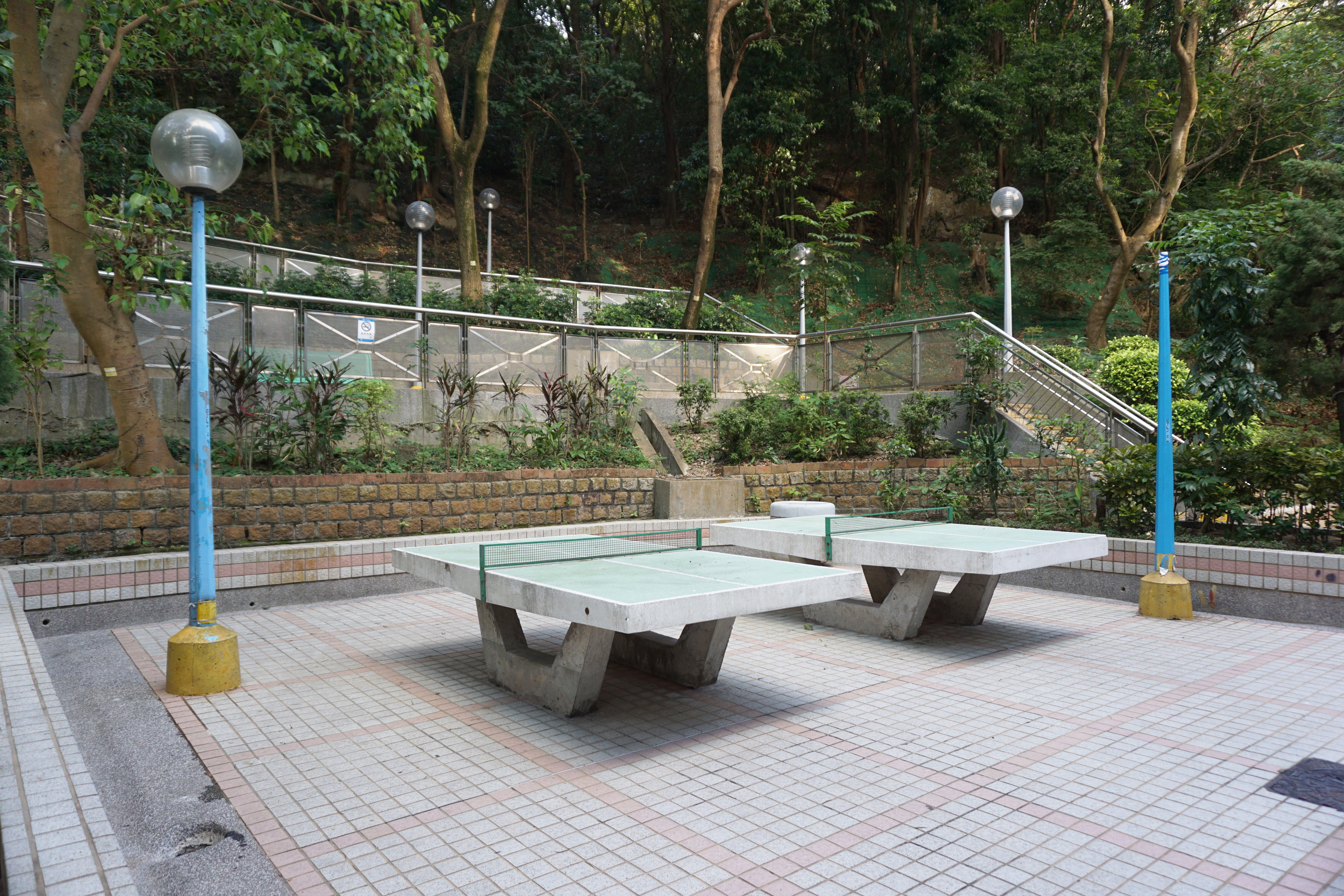 Tsz Lok Estate in Tsz Wan Shan, Hong Kong.